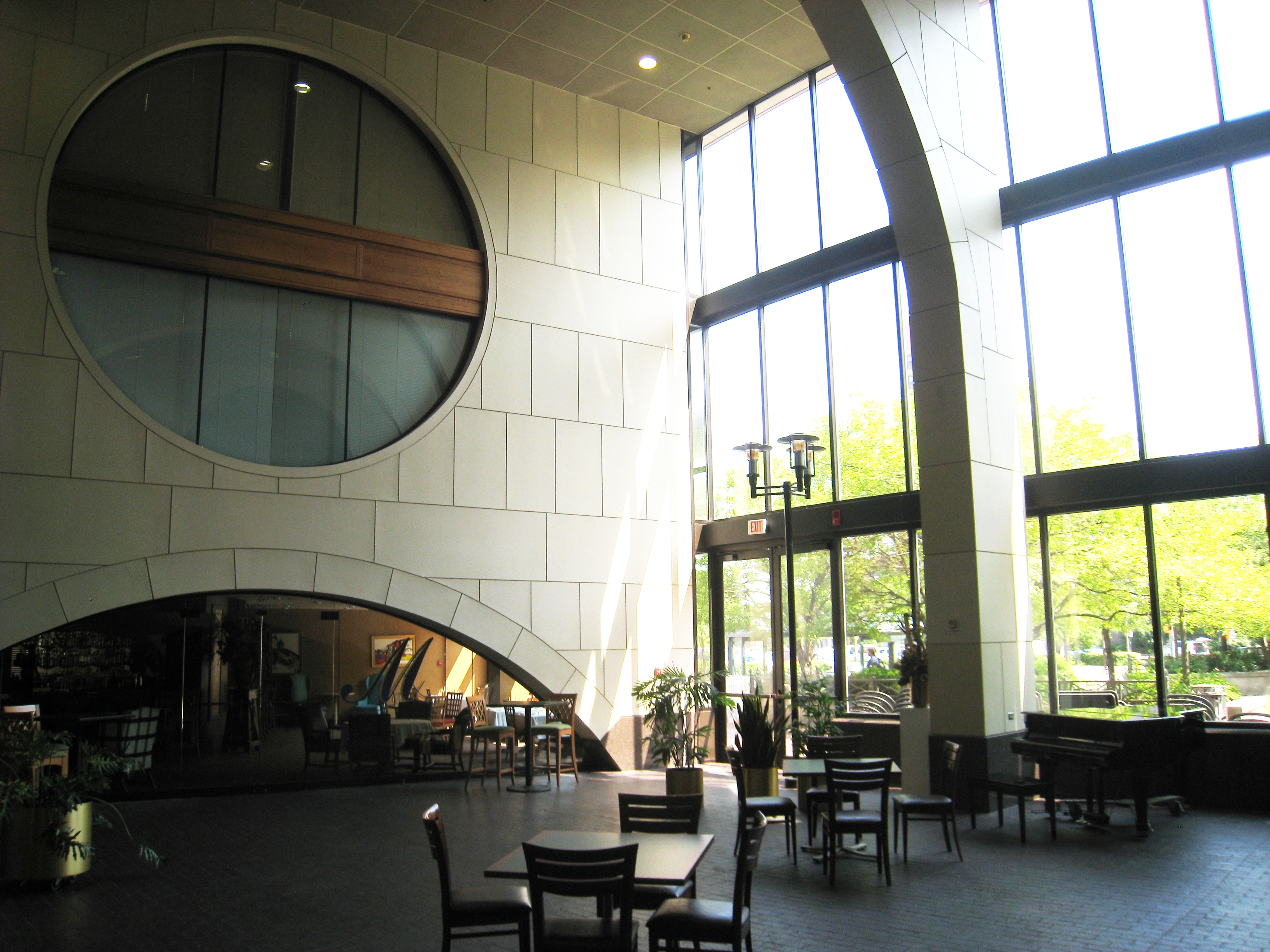 Eastman School of Music, Rochester, New York, USA - Miller Center interior.